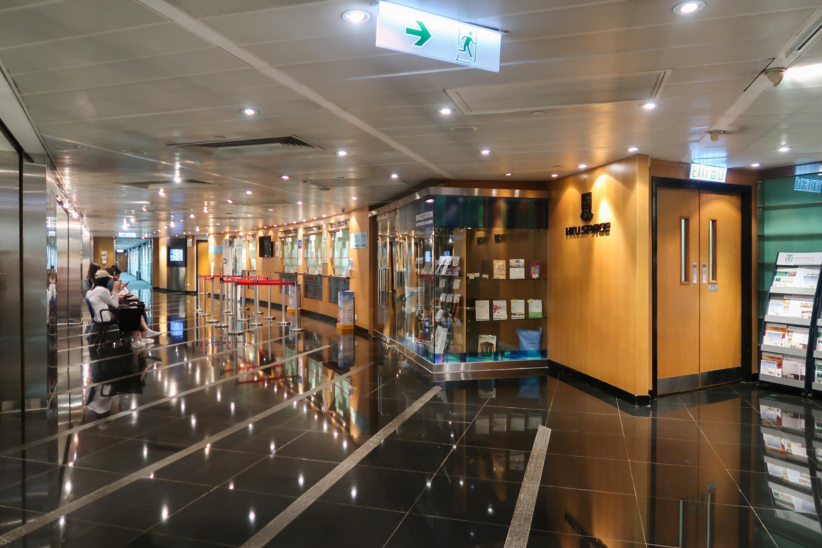 HKU Space Town Centre